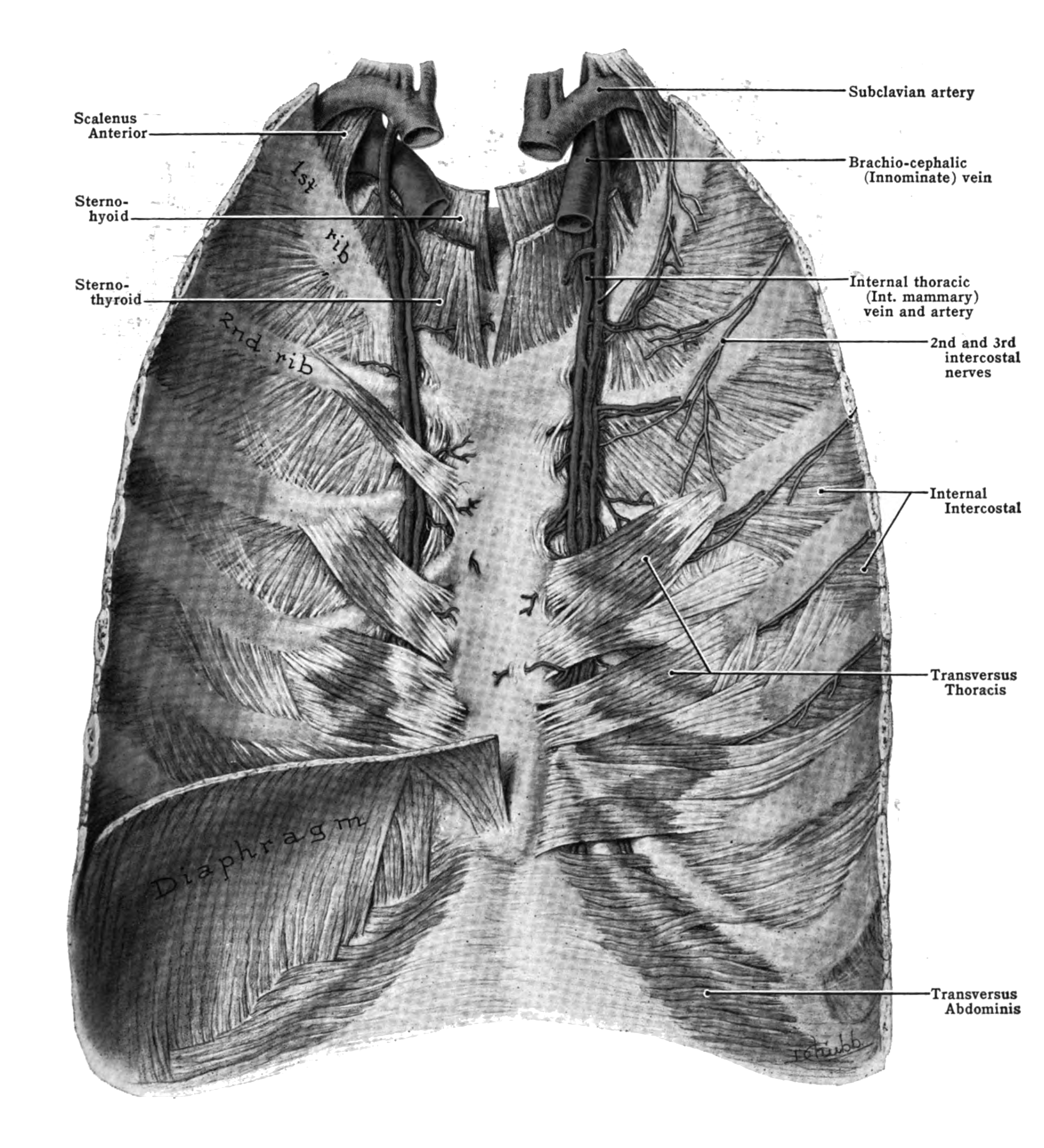 407 Anterior Thoracic Wall, from behind (Dissection by Dr. S. A. Crooks) Observe: 1. The continuity of Transversus Thoracis with Transversus Abdominis, these being the inner- most layer of the three muscles of the thoraco-abdominal wall. 2. The internal thoracic artery, arising from the first part of the subclavian artery, accom- panied by two veins (venae comitantes) up to the 3rd or 2nd intercostal space and above this by a single vein (internal thoracic vein), which proceeds to the brachio-cephalic vein. 3. The lower portions of the internal thoracic vessels, covered posteriorly with Transversus Thoracis; the upper portions in contact with parietal pleura (removed).